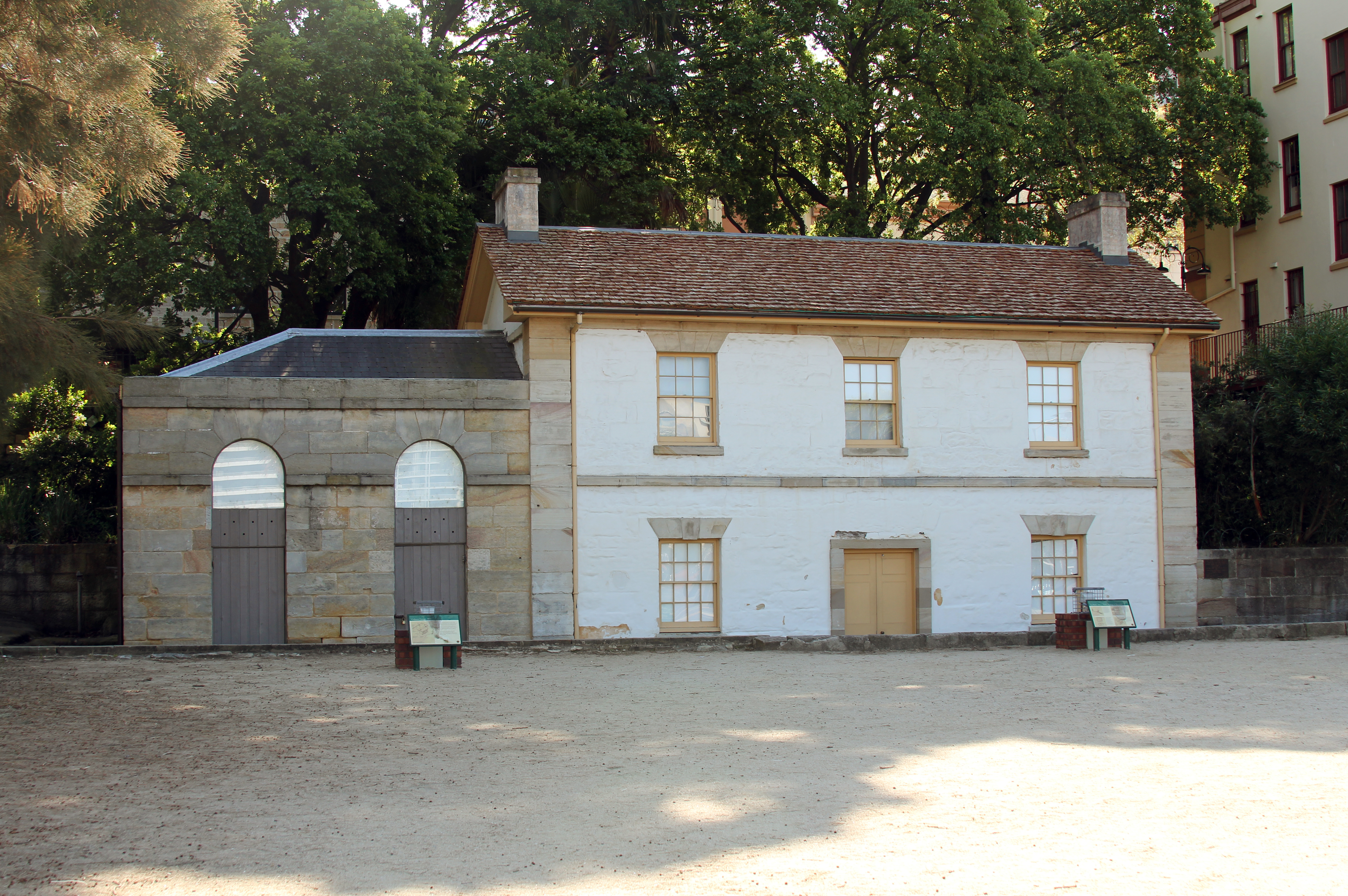 Frontal view of Cadman's Cottage at The Rocks, a heritage-listed site in Sydney, Australia.